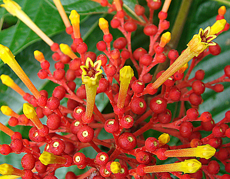 Native from Guatemala to Colombia, under names such as Canelito. Photo from Lago Gatun, Panama. In context at